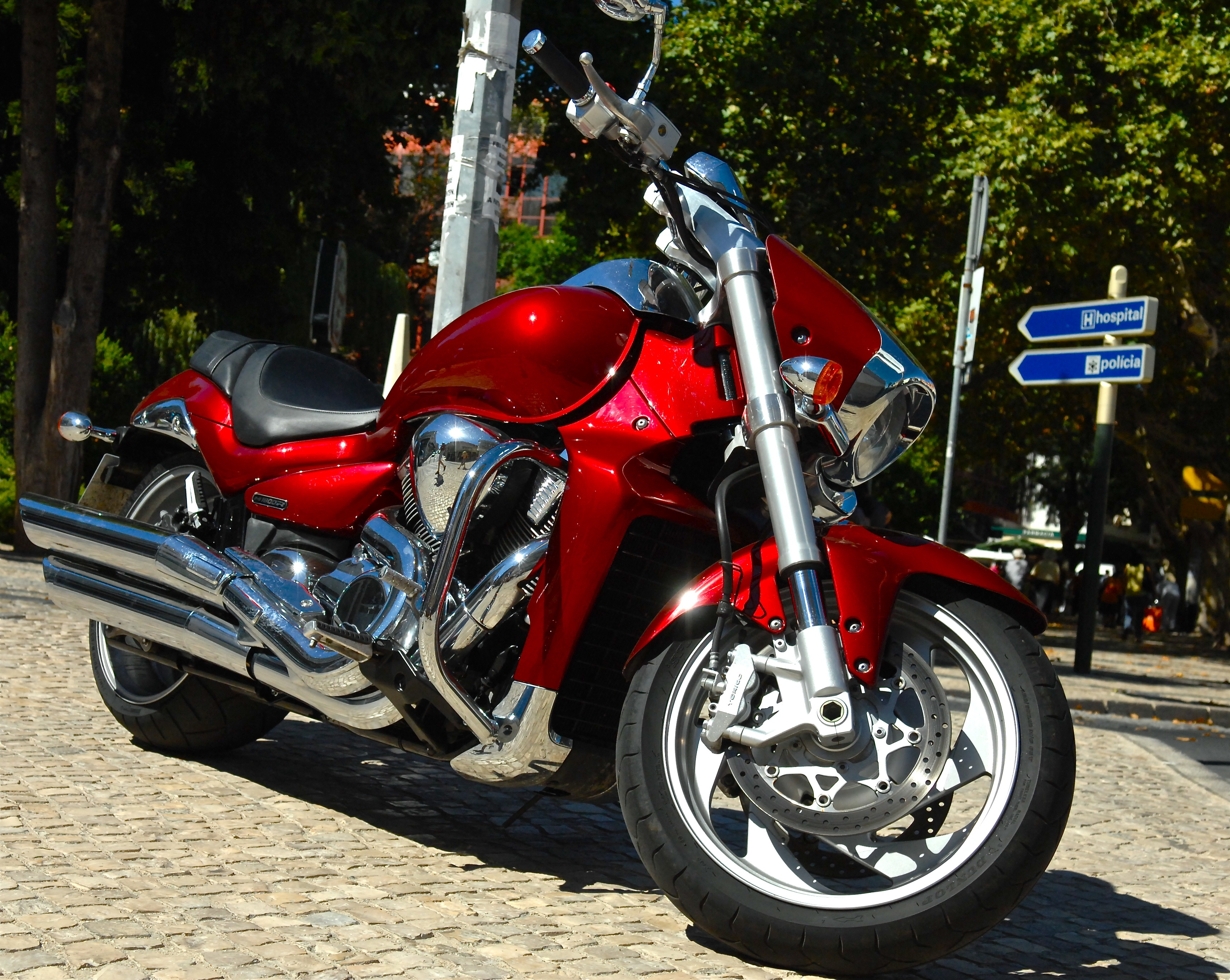 Suzuki M1800R at Cascais, Portugal.